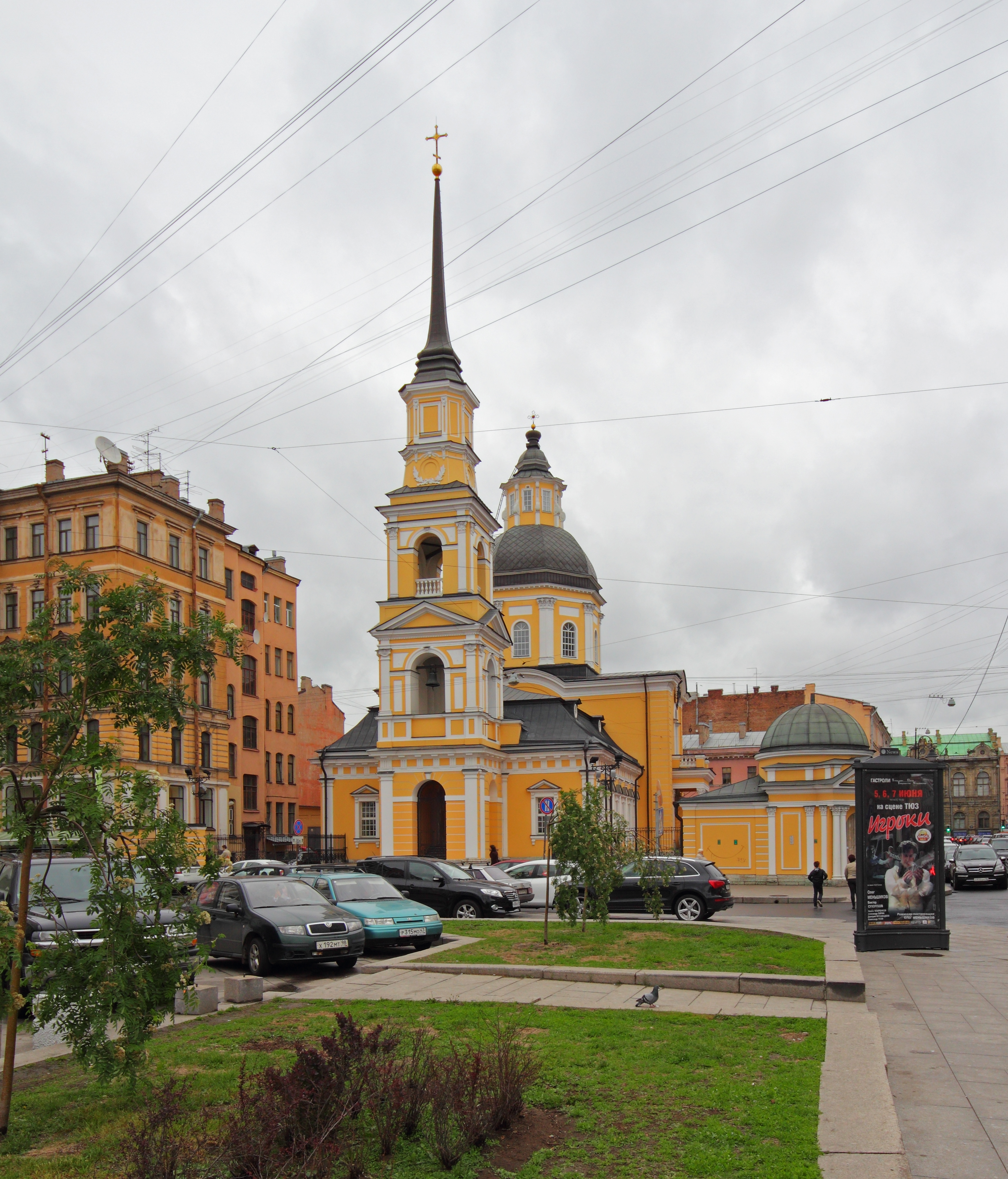 Saint Petersburg, Russia. Church of Sts. Simeon and Anna.